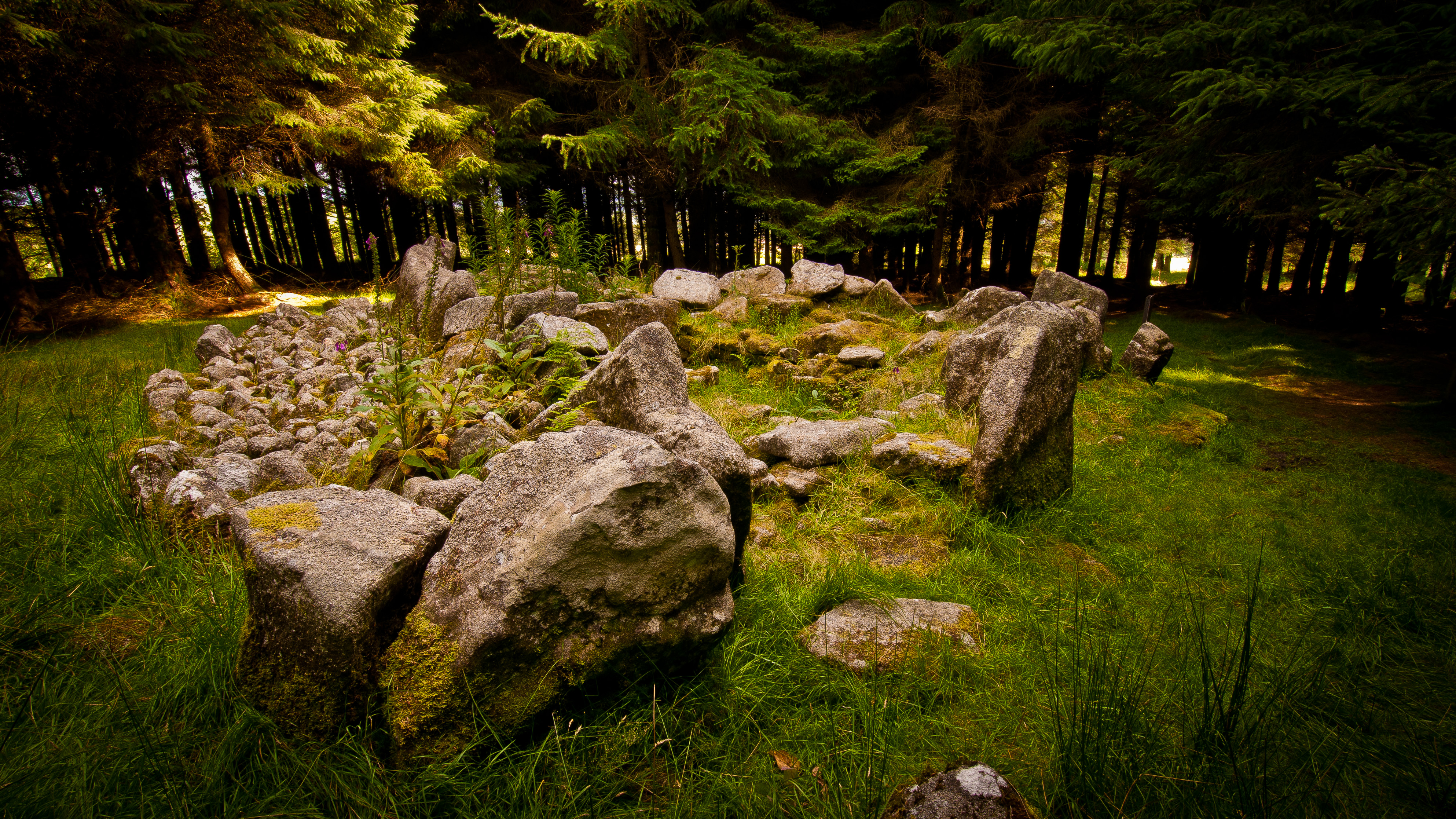 Known locally as the "Giant's Grave", this is a wedge-shaped gallery grave – a type of communal burial place built in the second millenium B. C. The three compartments of the central chamber which housed the burials were surrounded by a horseshoe-shaped setting of stones and covered by a cairn. When excavated in 1945 the tomb produced Beaker pottery and flint implements.